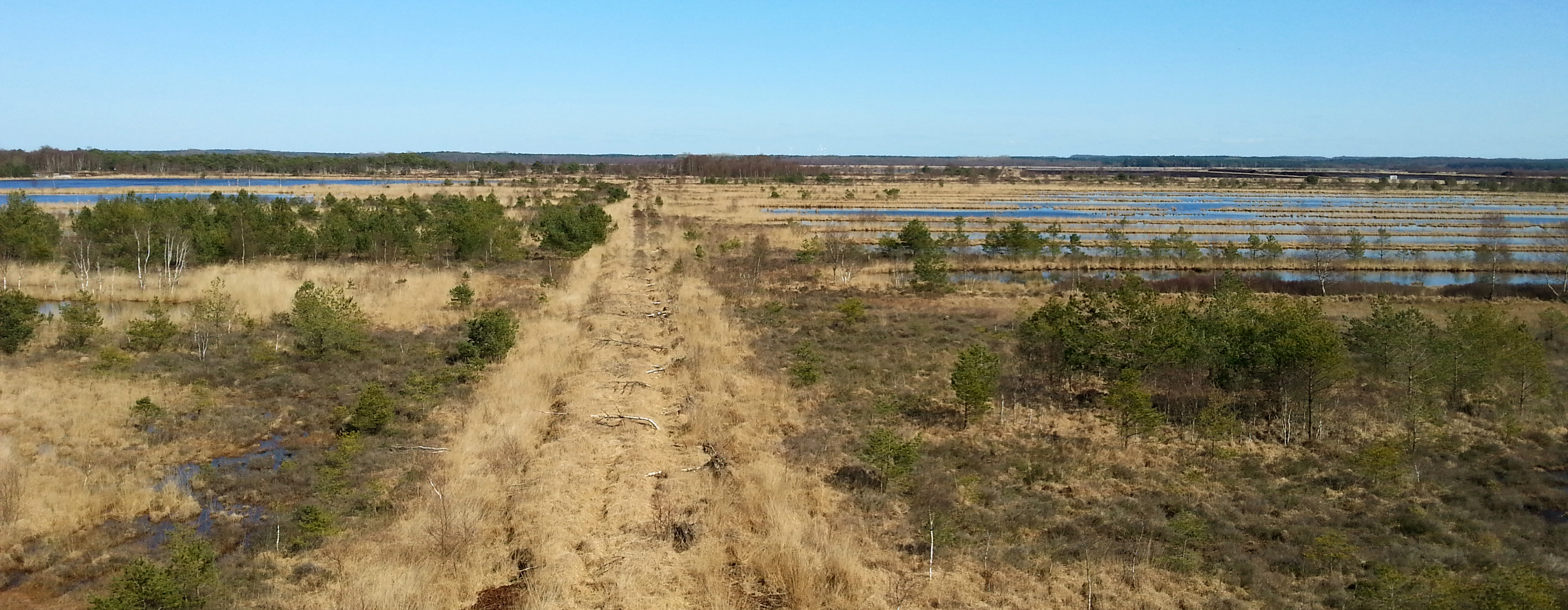 The Beauty of the High Moor in Spring